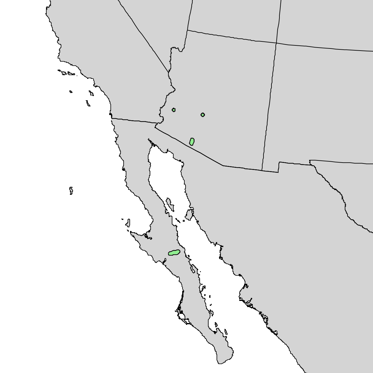 Natural distribution map for Quercus ajoensis — Ajo Mountain scrub oak. In the SW United States and NW Mexico.